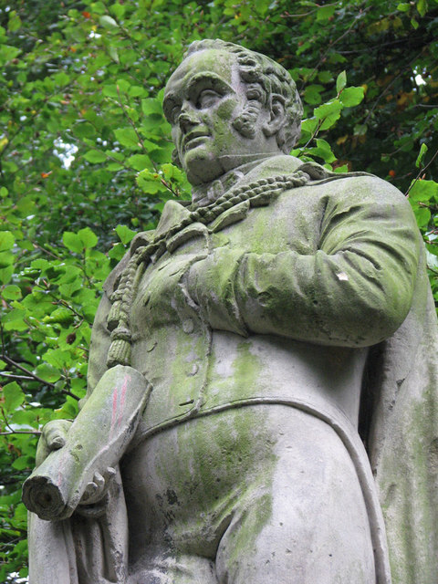 Nottingham Arboretum: statue of Feargus O'Connor the Chartist The statue of Feargus O’Connor is a reminder of Nottingham’s proud radical traditions. The Chartist Movement, which sprang up in the 1830s, calling for universal suffrage and other good things, was probably the world’s first working-class mass movement. O’Connor, elected MP for Nottingham in 1847, was the only Chartist Member of Parliament.